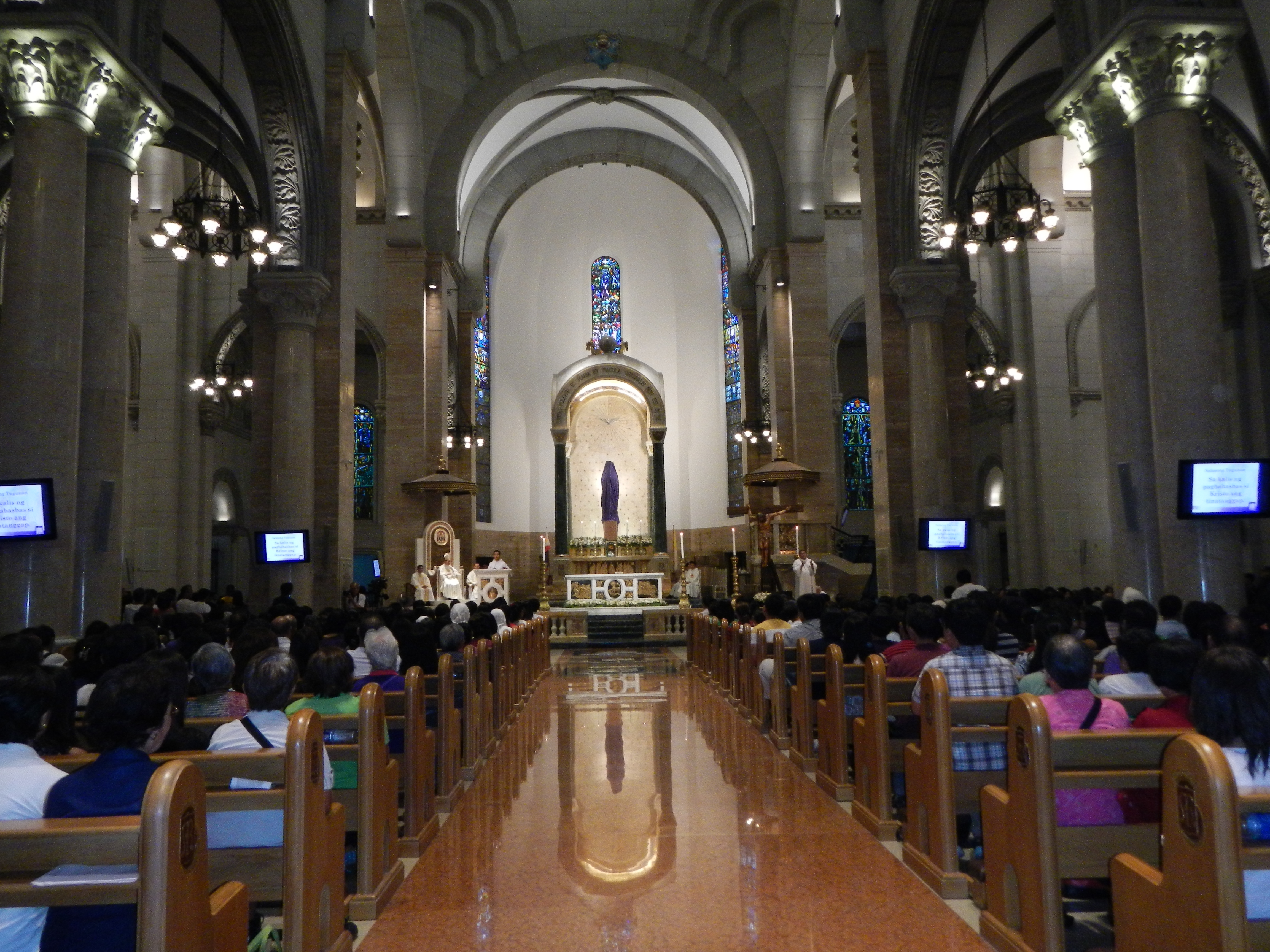 2014 Maundy Thursday, in the Philippines: Mass of the Lord's Supper and Chrysm Mass [1] and Washing of Feet Foot washing by Cardinal Luis Antonio Tagle in Manila Cathedral.